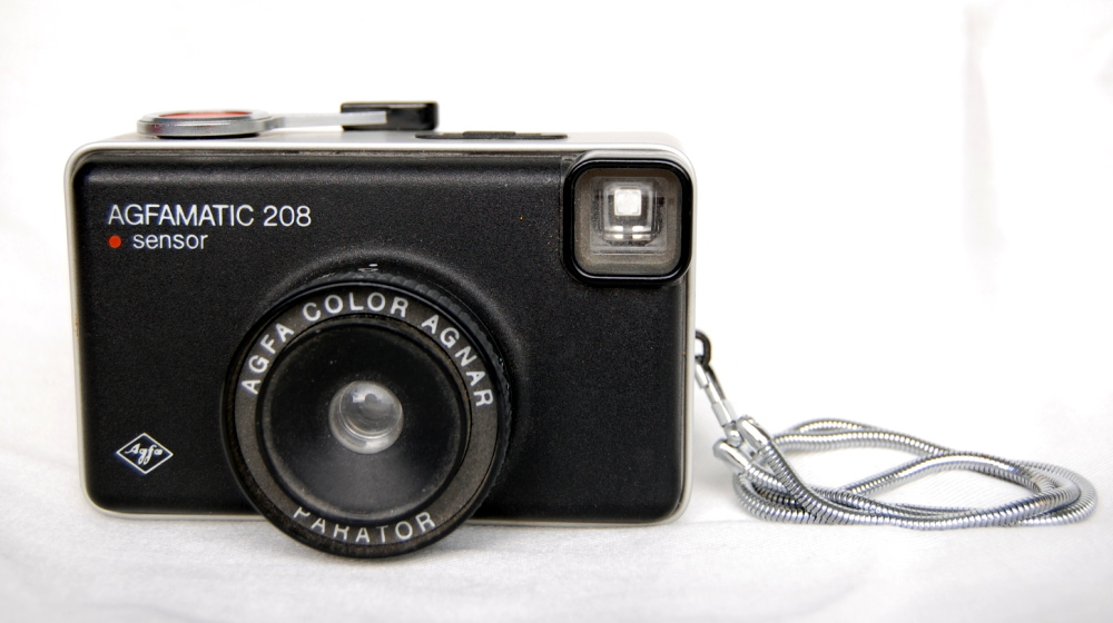 Agfamatic 208 film camera